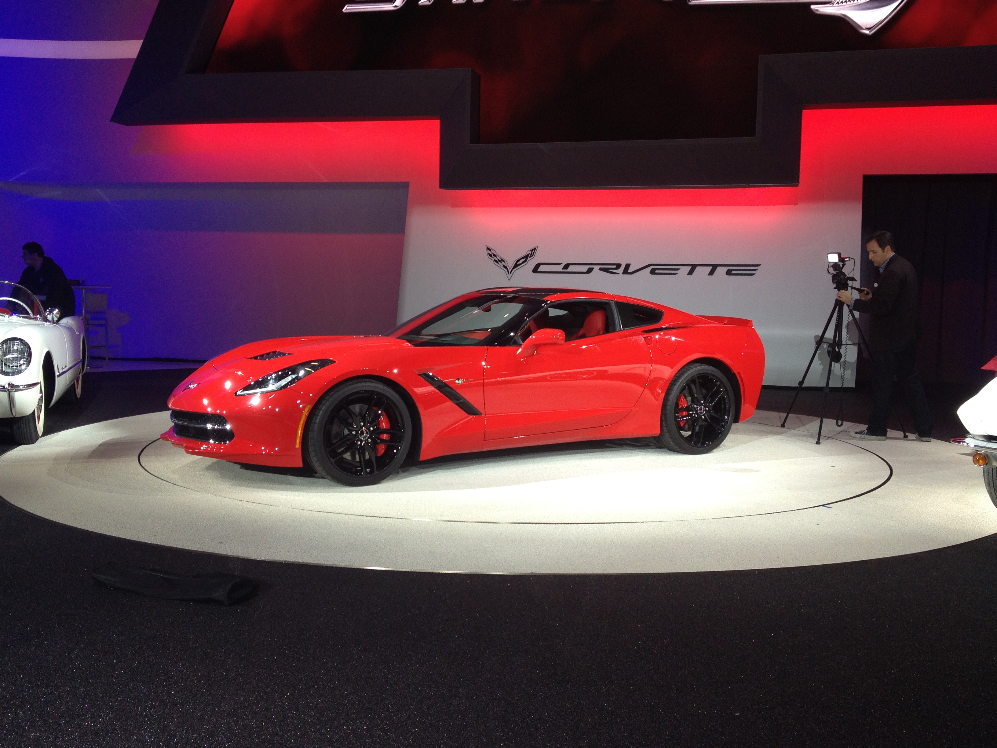 2013 North American International Auto Show Detroit, Michigan